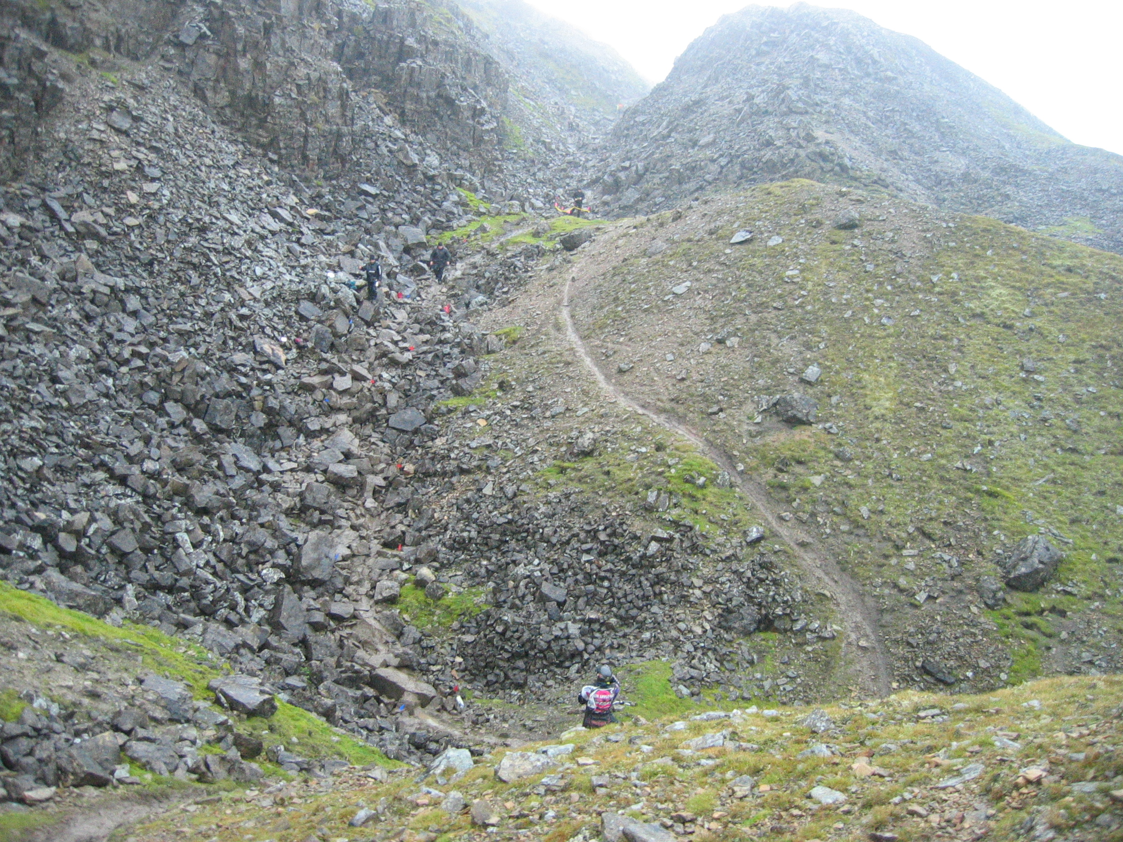 Scott Trial 24th October 2009. Black Hills. Section 39. Last competitor through. "I love this stuff". Section on left. Two observers at top, rider at bottom.